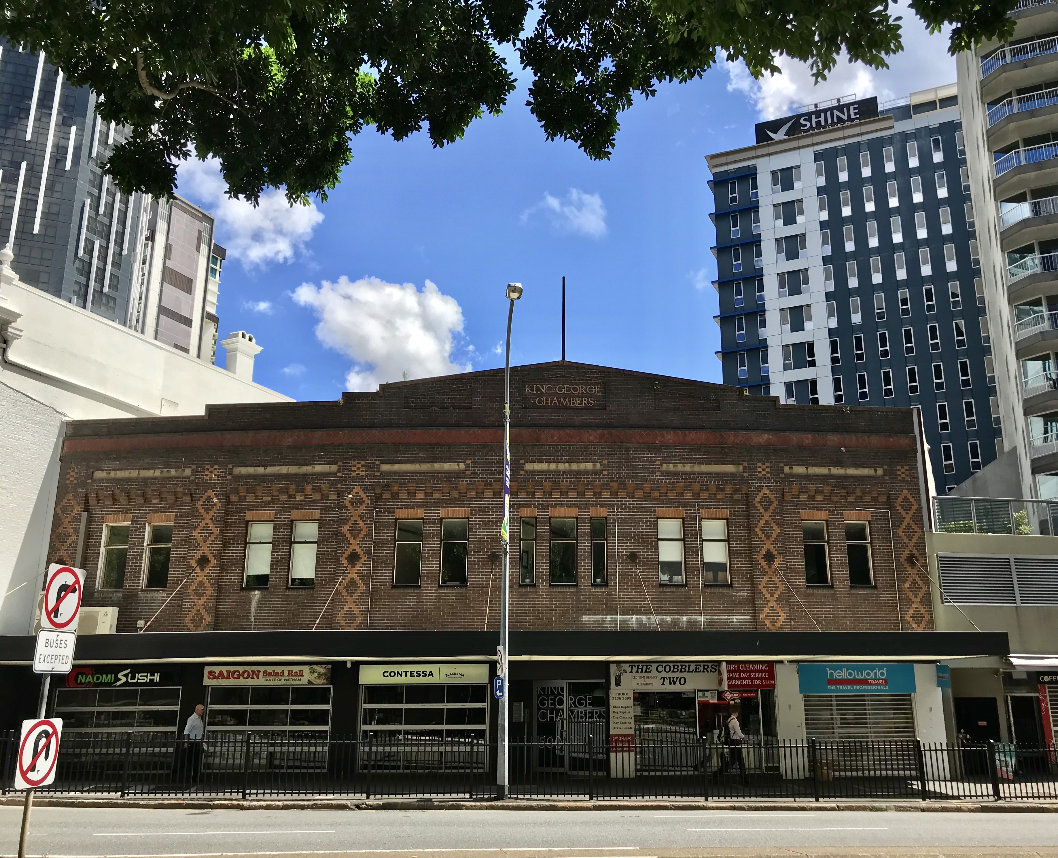 King George Chambers, 500 George Street, Brisbane